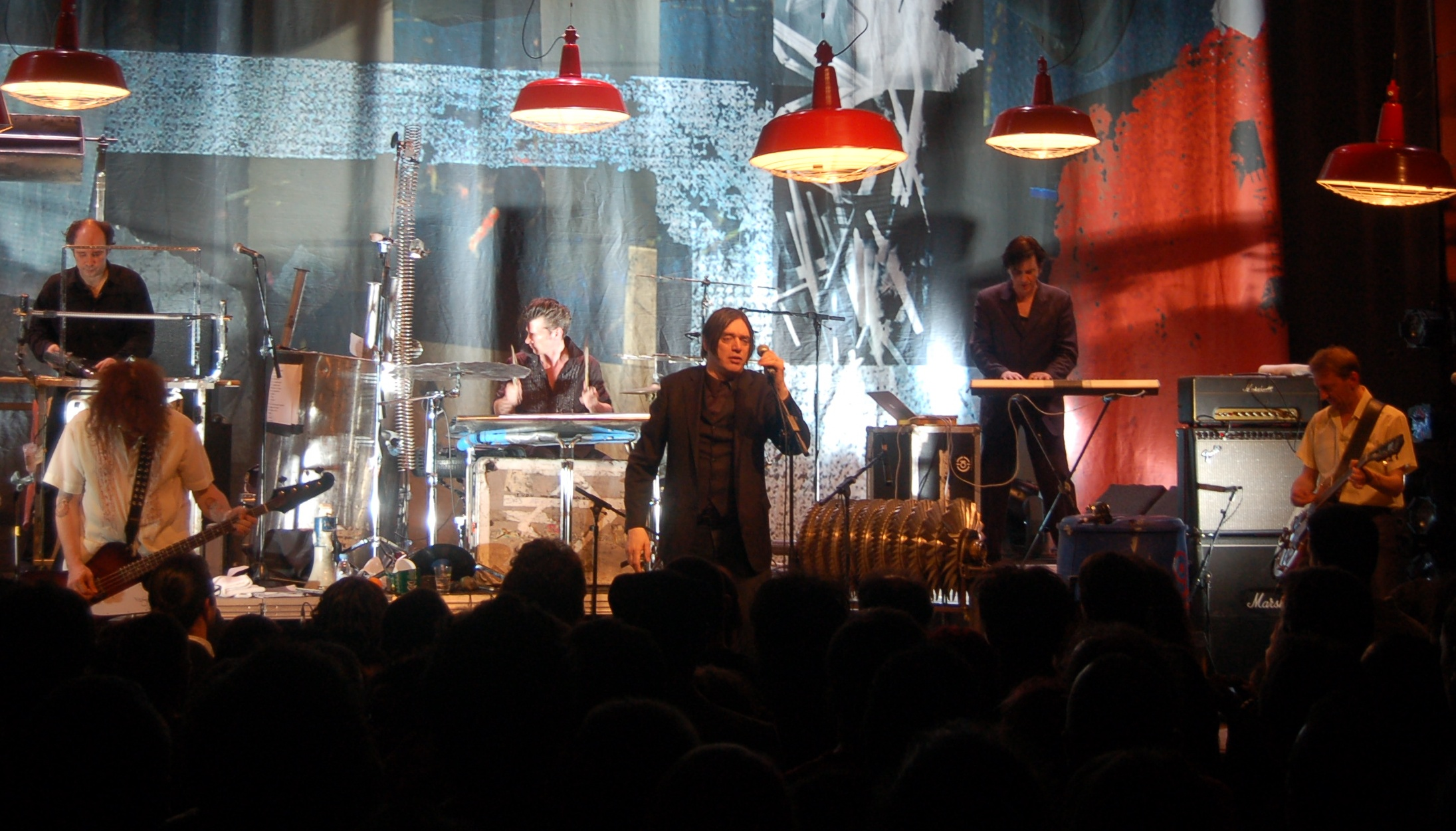 Einstürzende Neubauten live 2008